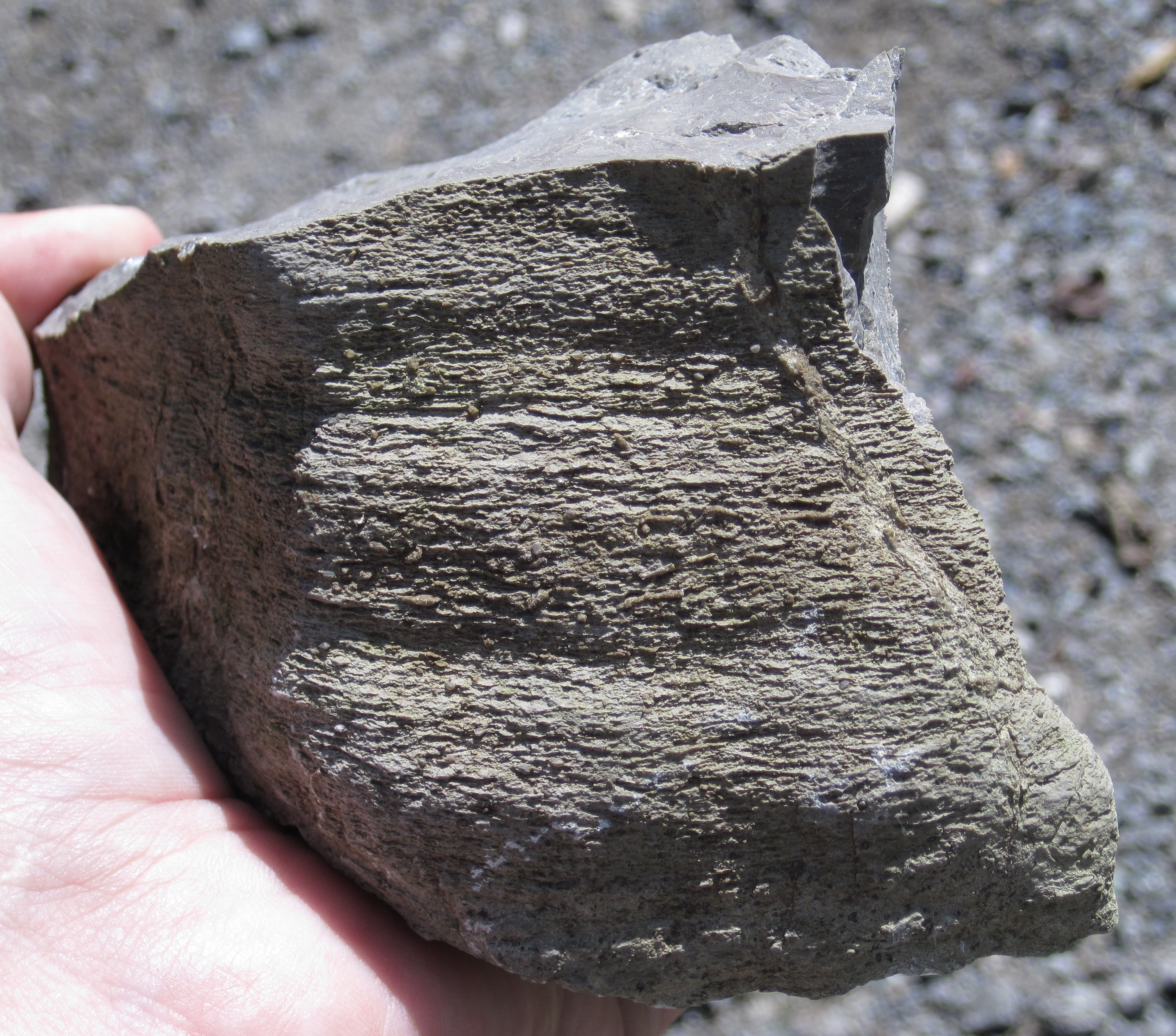 Nonmarine limestone from the Permian of Ohio, USA. The Upper Pennsylvanian to Lower Permian Dunkard Group of Ohio contains the youngest bedrock in the entire state. The unit consists of two stratigraphic formations: the Washington Formation (below) and the Greene Formation (above). This is a cyclothemic, nonmarine succession principally composed of shales, sandstones, lacustrine limestones, and thin coal beds. The rock shown above is from the Nineveh Limestone, a nonmarine carbonate unit in the Greene Formation (Lower Permian). These sediments were deposited in an ancient lake. The uppermost limestone bed of the Nineveh (= this sample) consists of cryptalgally-laminated micrite and dismicrite with fossil ostracods and ostracod vugs. Stratigraphy: upper part of the upper series of the Nineveh Limestone, unit GR16 of Cross et al. (1950), Greene Formation, upper Dunkard Group, Lower Permian Locality: Clark Hill section - roadcut on the southeastern side of Long Ridge Road, south of Oppossum Creek, south-southeast of the town of Clarington, southeastern Alum Township, eastern Monroe County, eastern Ohio, USA (GPS: 39° 43.676’ North latitude, 80° 51.018’ West longitude) Reference cited: Cross et al. (1950) - Field guide for the special field conference on the stratigraphy, sedimentation and nomenclature of the Upper Pennsylvanian and Lower Permian strata (Monongahela, Washington and Greene Series) in the northern portion of the Dunkard Basin of Ohio, West Virginia and Pennsylvania. 107 pp.